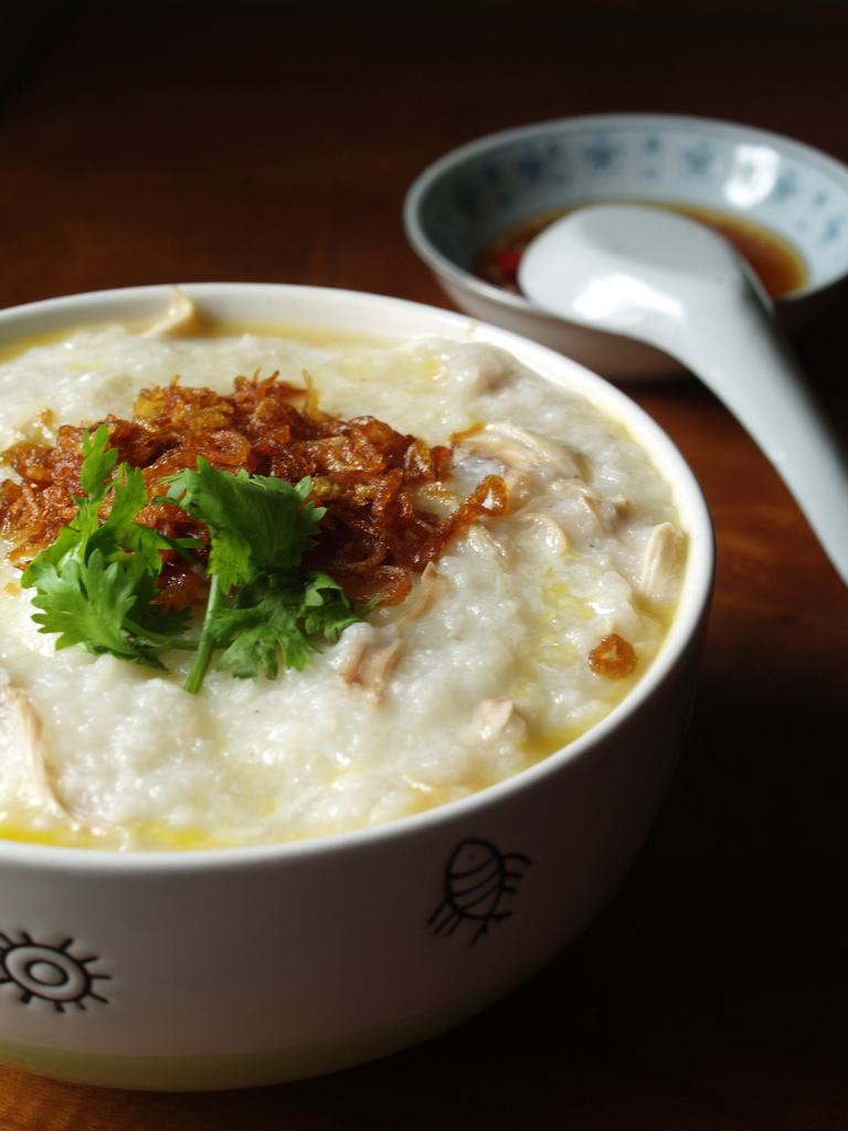 I had this for lunch today. A bowl full of protein and carbs. Chicken congee, with egg, fried shallot and chinese parsley. Oh yes, not to forget those hot chillis by the side with light soy sauce. (; Found in-Mummy's kitchen. ;D